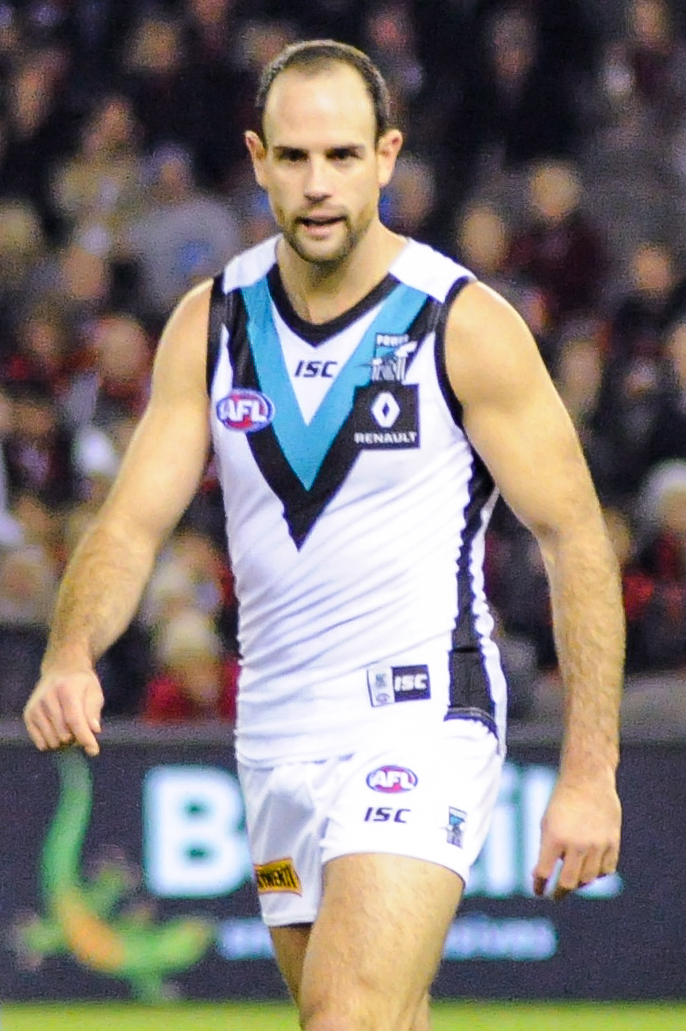 Matthew Broadbent during the AFL round twelve match between Essendon and Port Adelaide on 10 June 2017 at Etihad Stadium in Melbourne, Victoria.